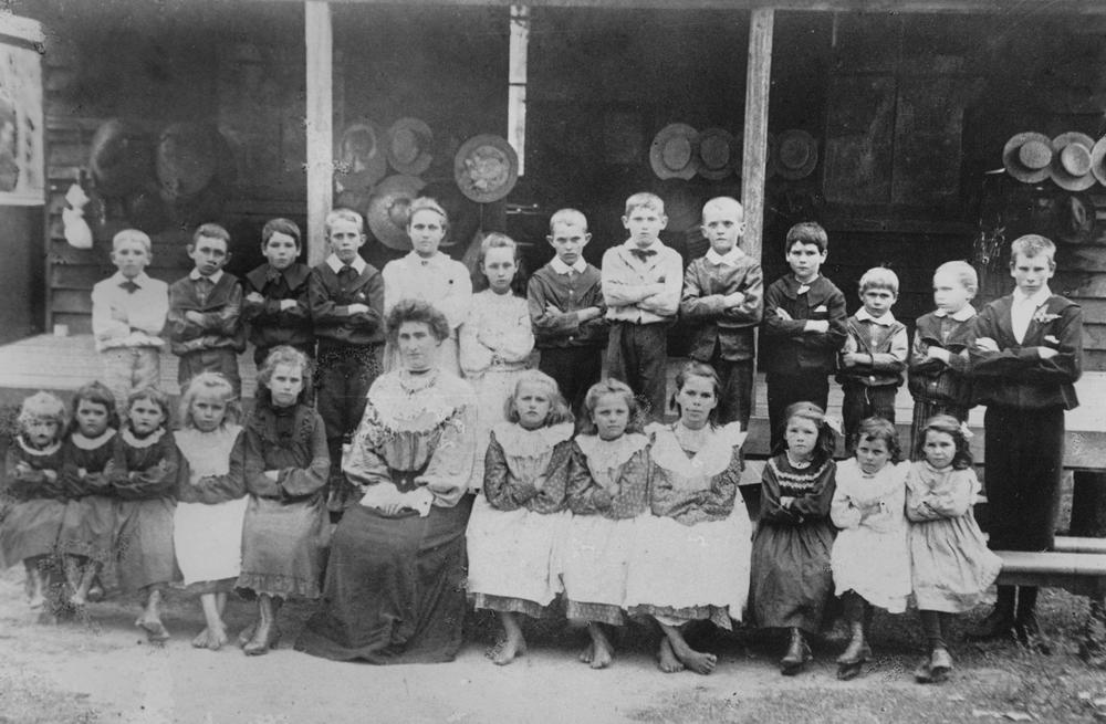 Mount Barney State School children with teacher Miss Bedelia Brennan, 1901 The school teacher Bedelia Brennan was later known by her married name Mrs Joseph Flannagan. (Description supplied with photograph).